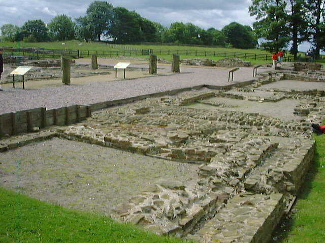 Birdoswald Roman Fort. Remains of Birdoswald Roman Fort on Hadrians Wall. This is one of the main visitor attractions on this part of the Wall and has a visitor centre